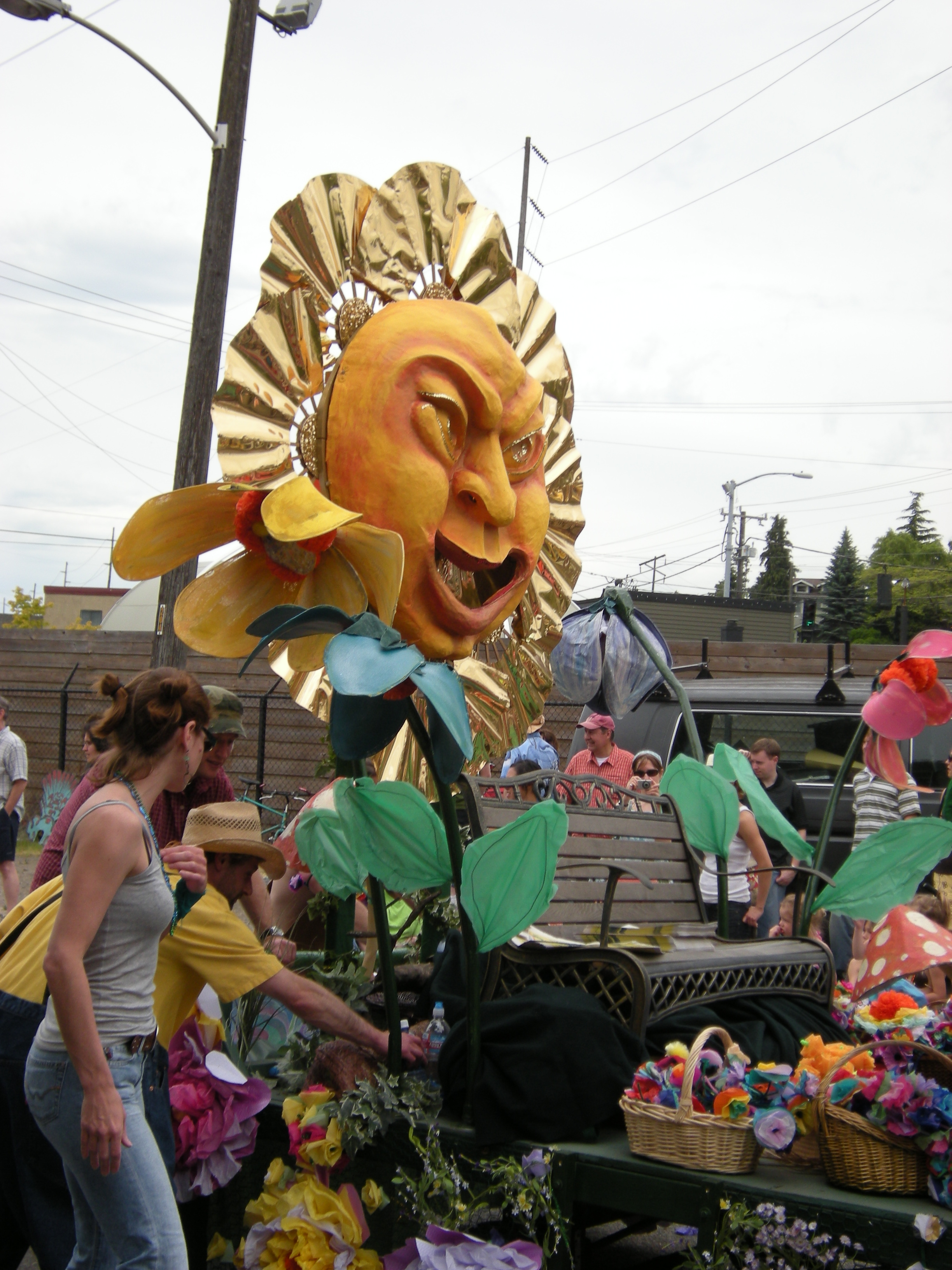 The Sun, 2008 Summer Solstice Parade, Fremont Fair, Seattle, Washington.